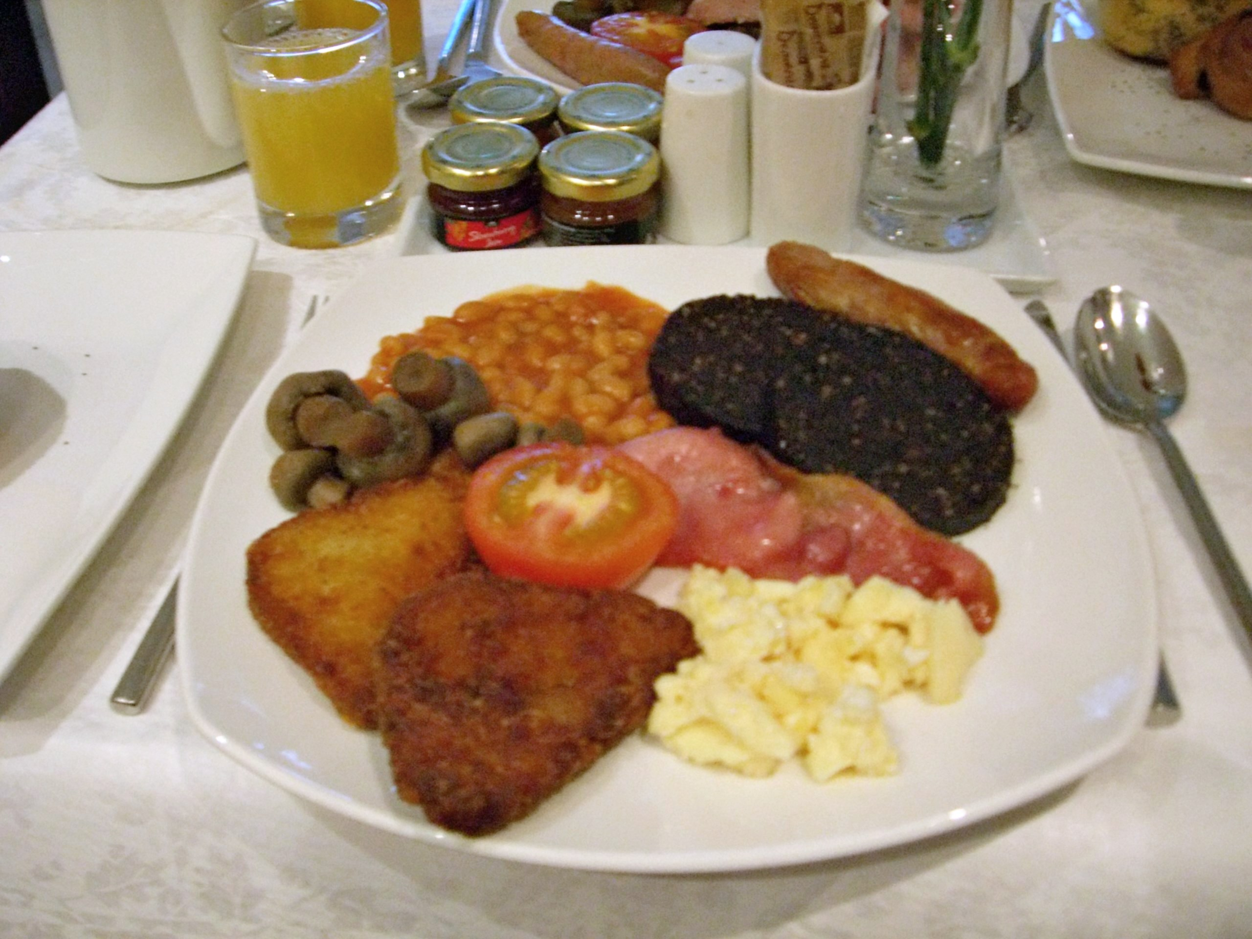 A picture of a full English breakfast taken by me.